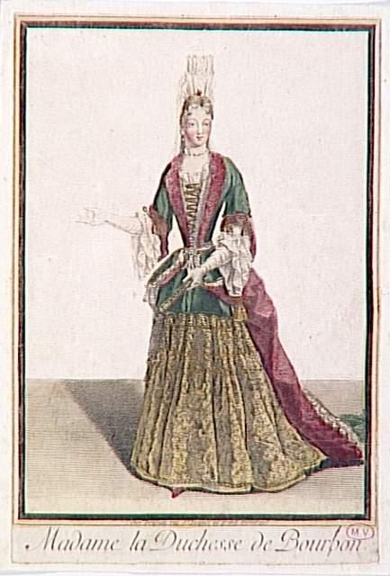 Portrait of the Duchess of Bourbon, daughter of Louis XIV and La Montespan